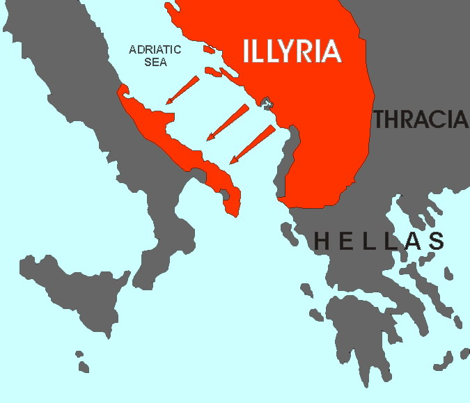 Illyrian colonies in Italy 550 BCE